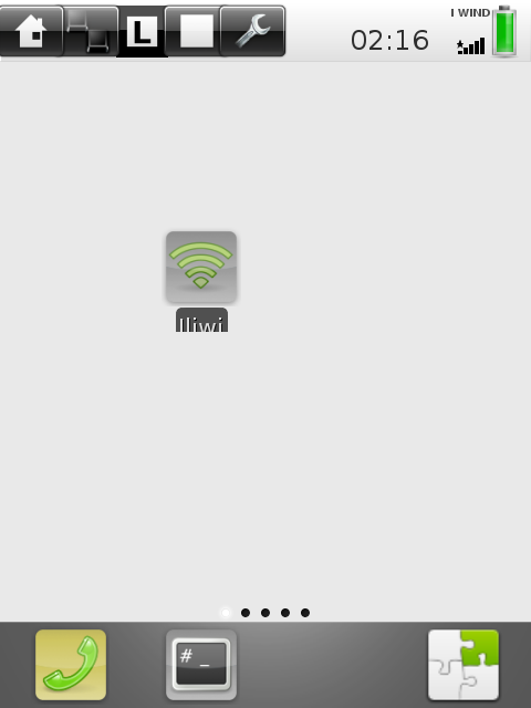 The default elfe desktop on shr-core.